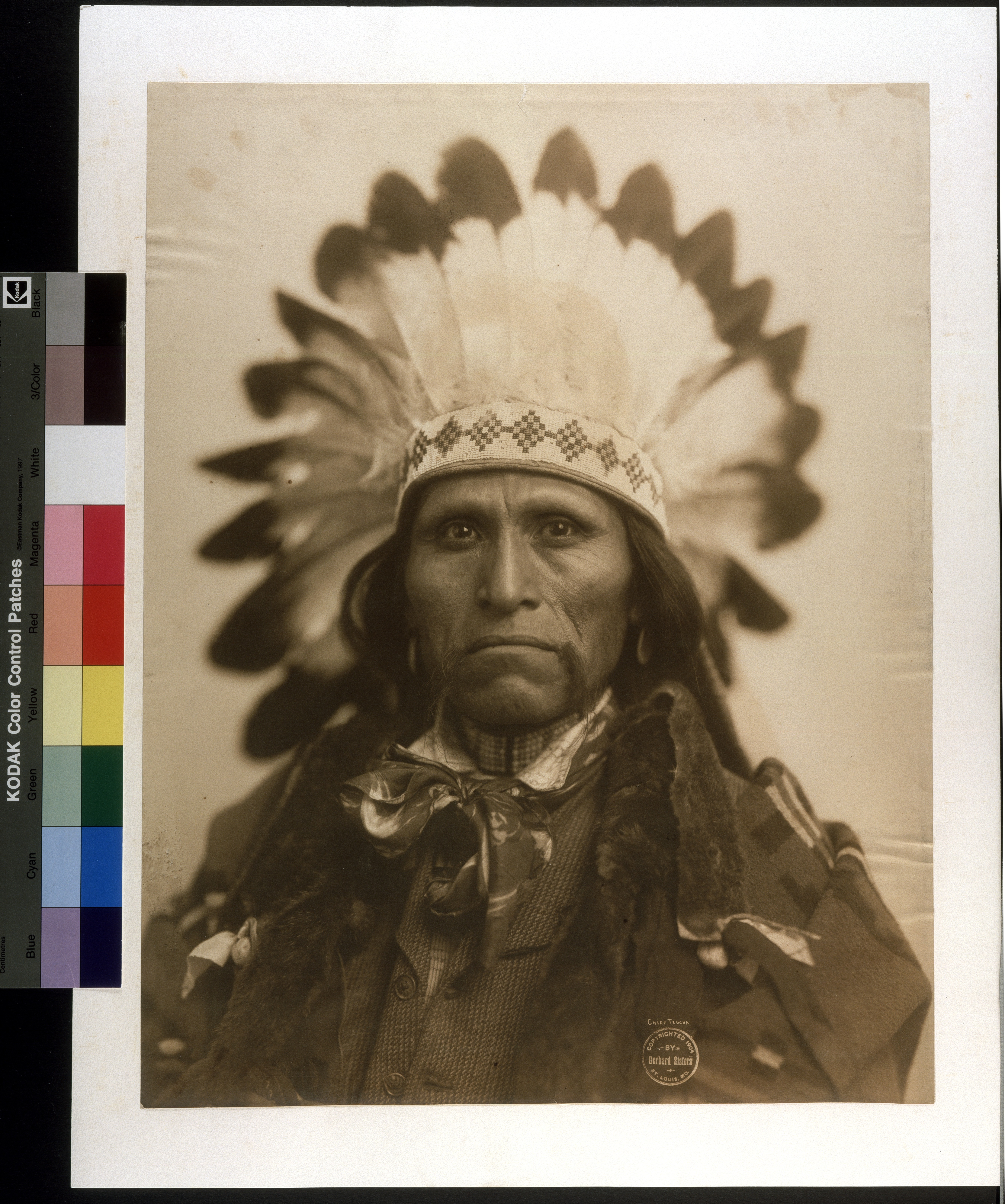 Title: "Chief Trucha" [Tafoya]. [Apache]. (Taken during the 1904 World's Fair).